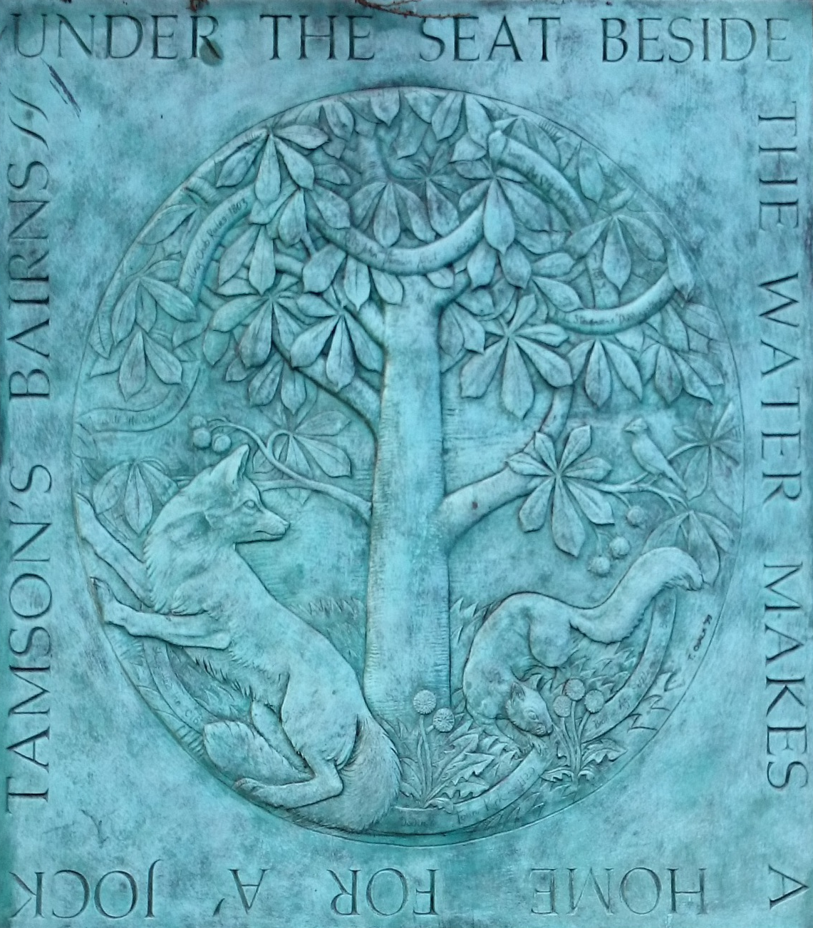 A photograph of a copper tablet affixed to the wall opposite Duddingston Church, Edinburg, Scotland.